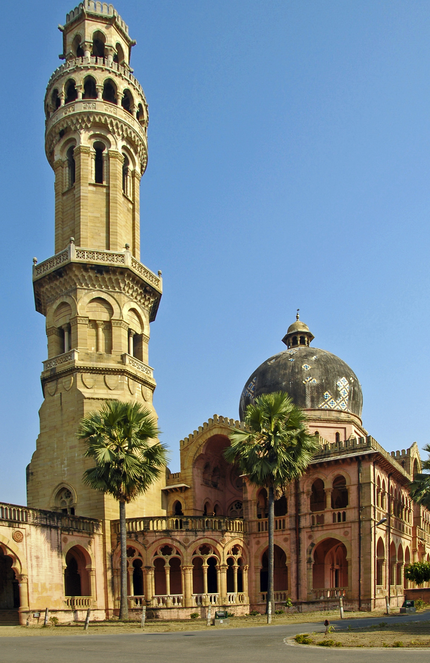 Science Faculty's mathematics department of Allahabad University